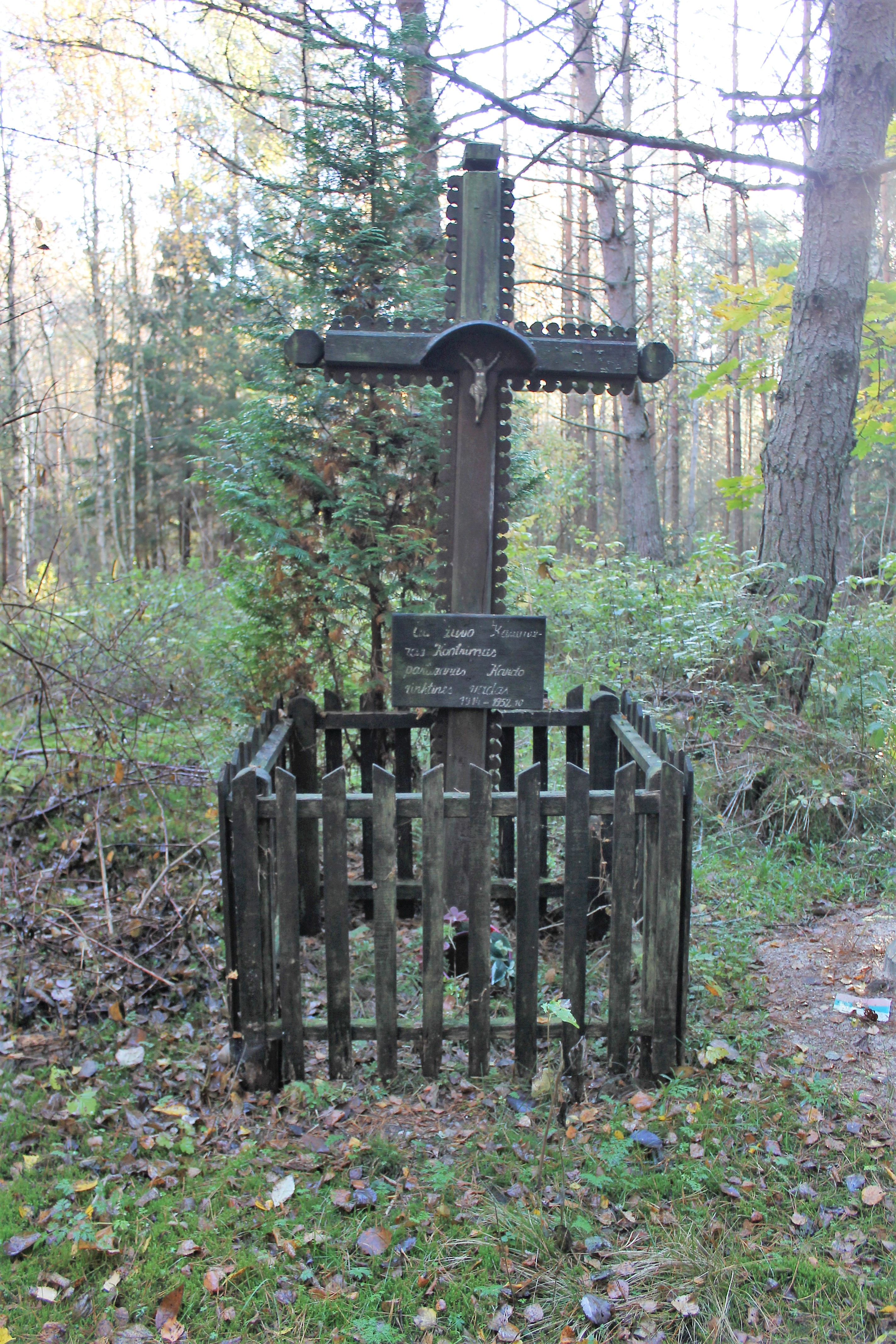 The disappearance of the partisan commander Kazimieras Kontrimas in the village of Kumpikai, Kretinga district municipality, LithuaniaLietuvių: Partizanų vado Kazimiero Kontrimo žuvimo vieta Kumpikų kaime, Kretingos rajono savivaldybė, Lietuva